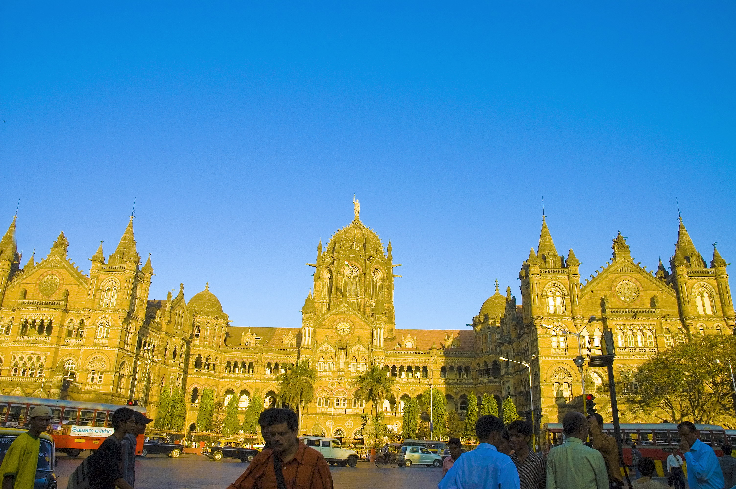 The Chhatrapati Shivaji Terminus, Mumbai - India. Shot on Nikon D70s Arguably the most imposing structure in South Mumbai, it is today the headquarters of the Central Railway. Figures of "progress" and "prosperity" jostle with a variety of sculptures depicting animals and birds.